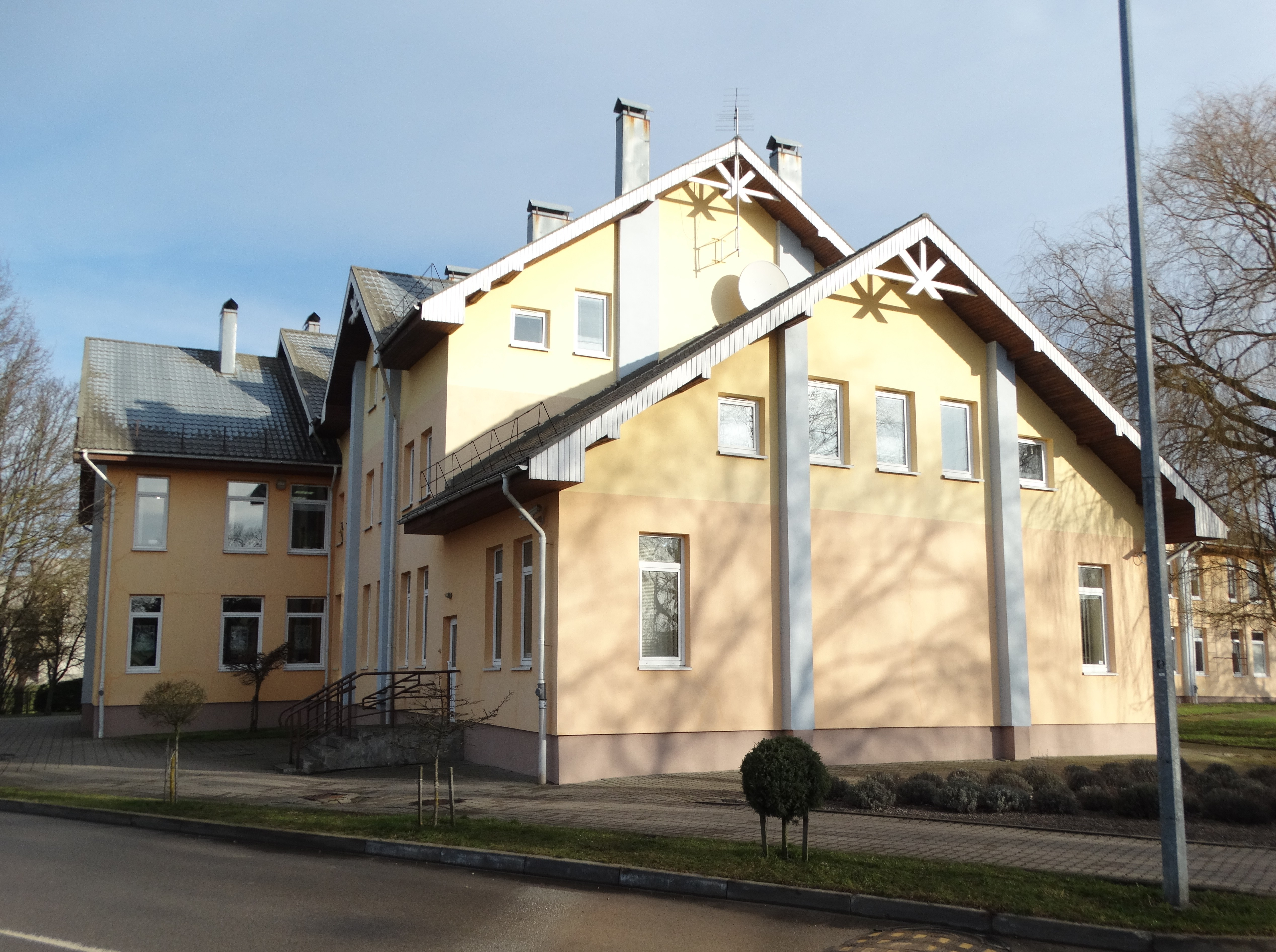 Art School, Kretinga, Lithuania